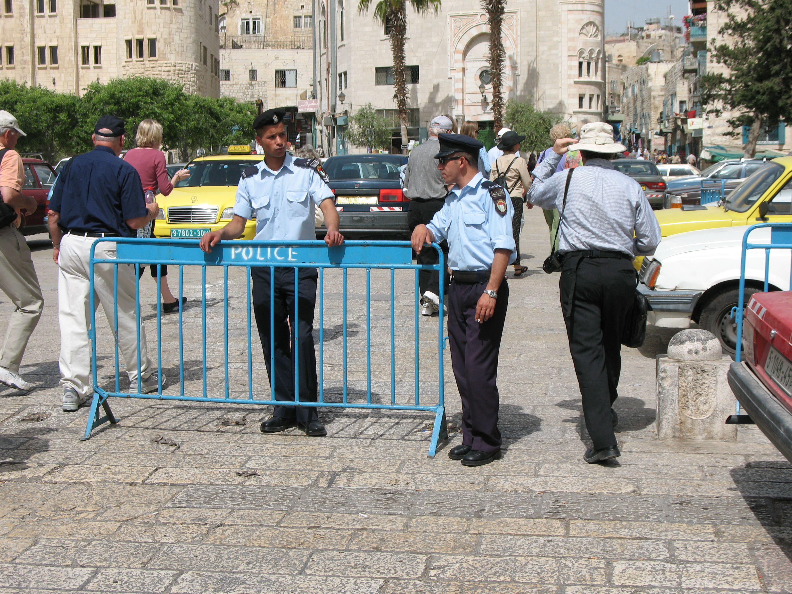 Two Palestinian police standing in front of the Church of the Nativity blogged at Bethlehem Street. Pictures taken while walking or riding bus in Bethlehem (plus two pics from a gift shop)